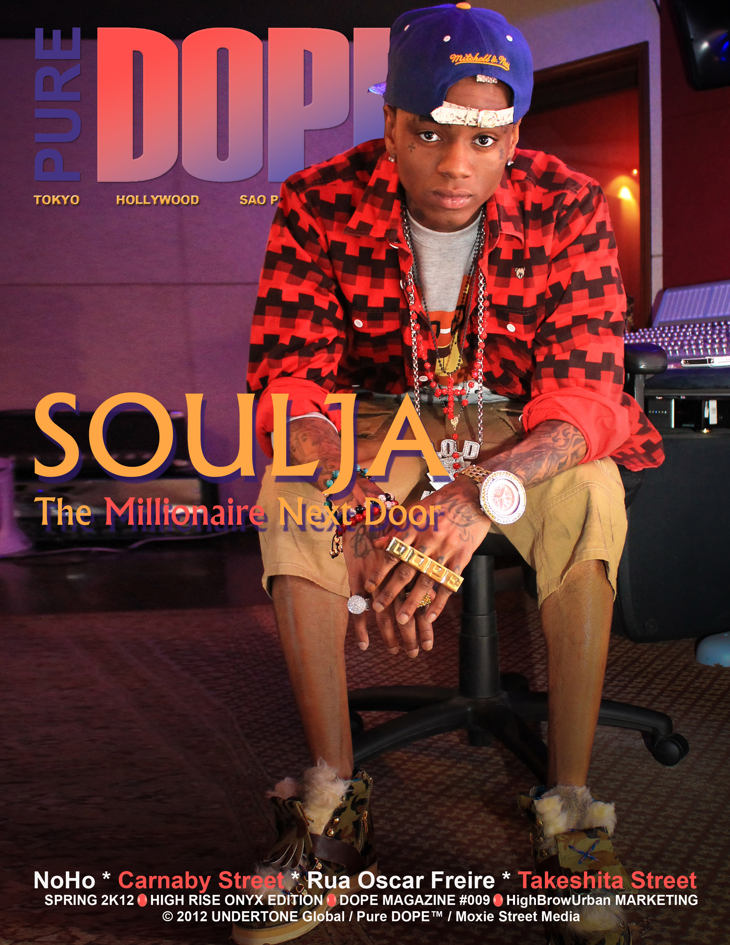 The spring 2012 “High Rise” issue of DOPE Magazine — which featured Soulja Boy on the cover.